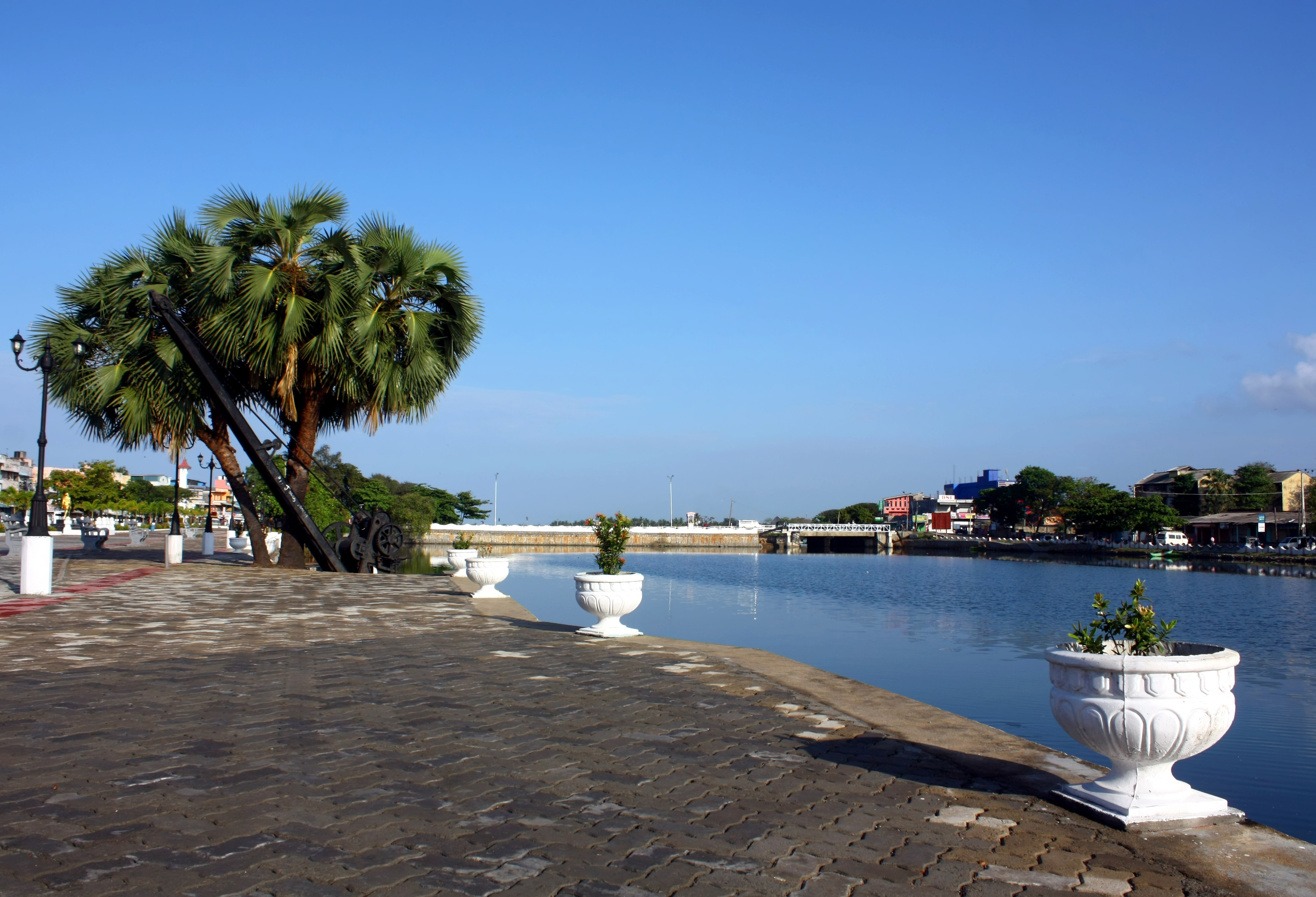 Batticaloa landscape - It is located in Puliyanthivu (island) and part of Batticaloa town. This area was functioned as port